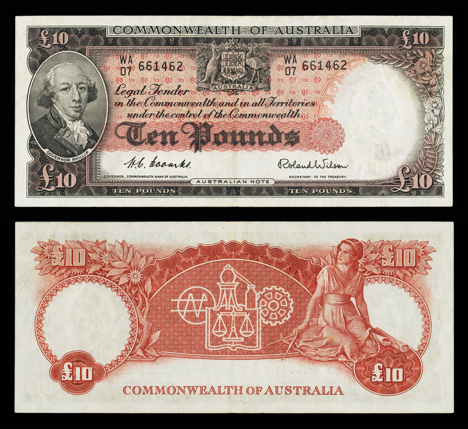 Commonwealth Bank of Australia ten-pound note (1954-59)(3525-22016)